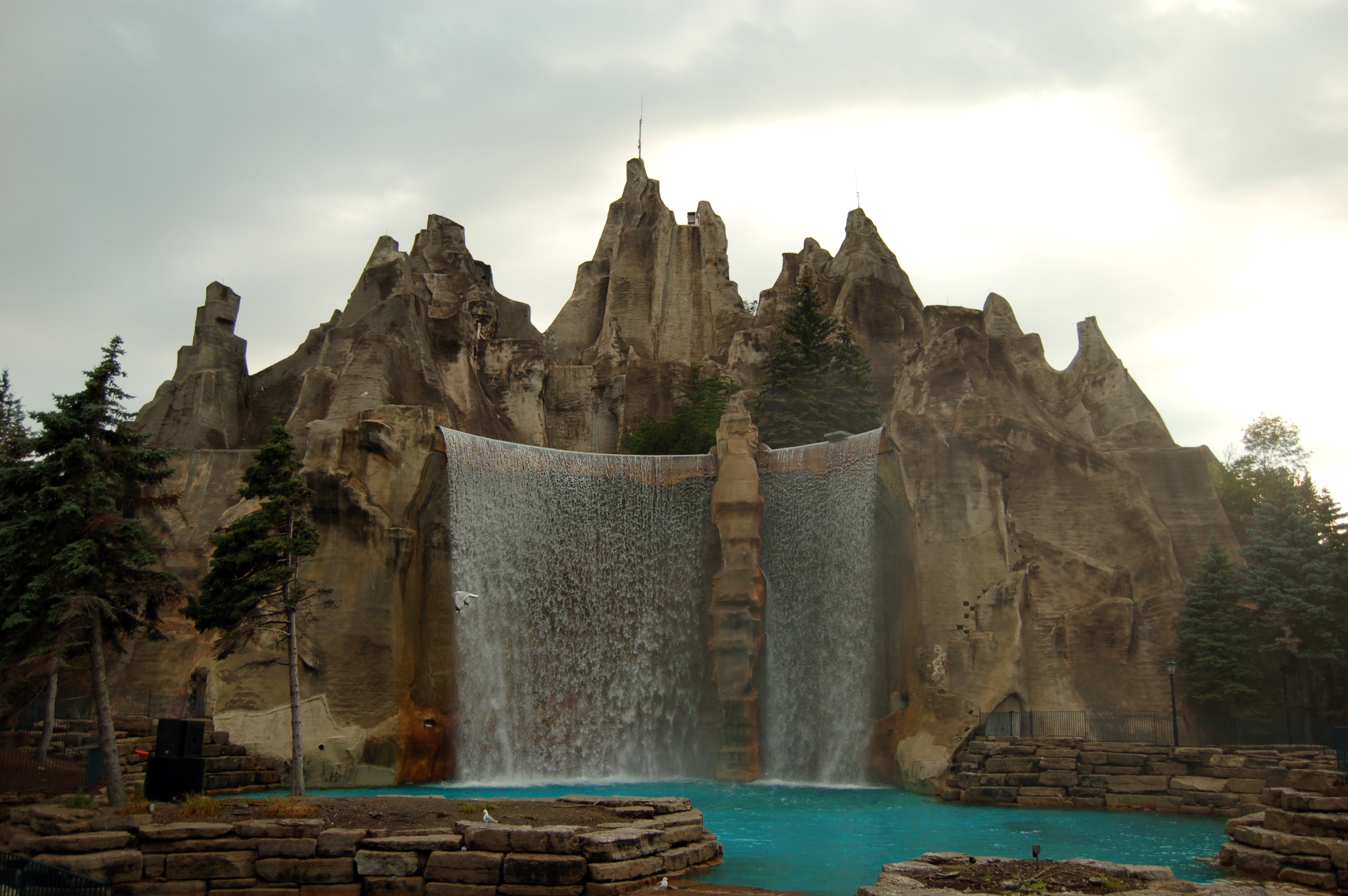 Mountain at Canada's Wonderland in Vaughan, Ontario, Canada.